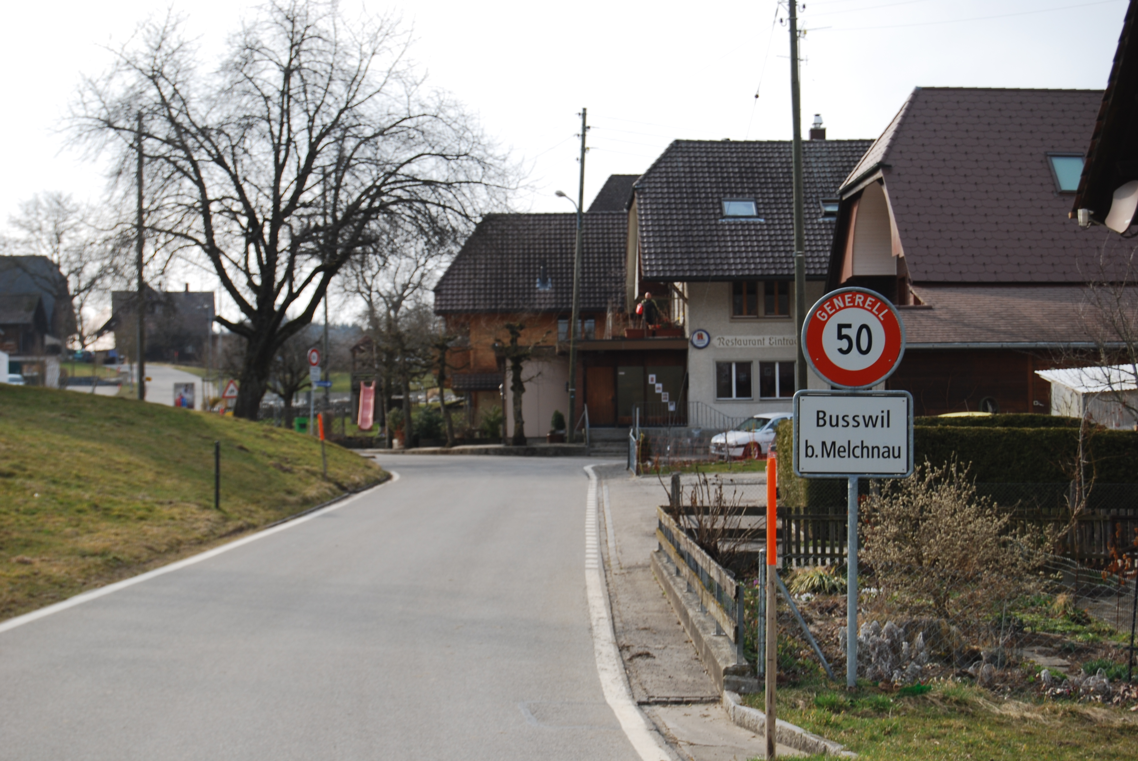 Busswil bei Melchnau, canton of Bern, SwitzerlandEsperanto: Busswil ĉe Melchnau, Kantono Berno, Svislando